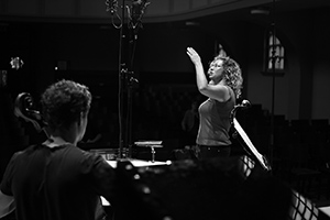 Gwendolyn Masin and Istvan Vardai at GAIA Festival